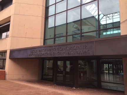 Dorothy Enslow Combs Cancer Research Building